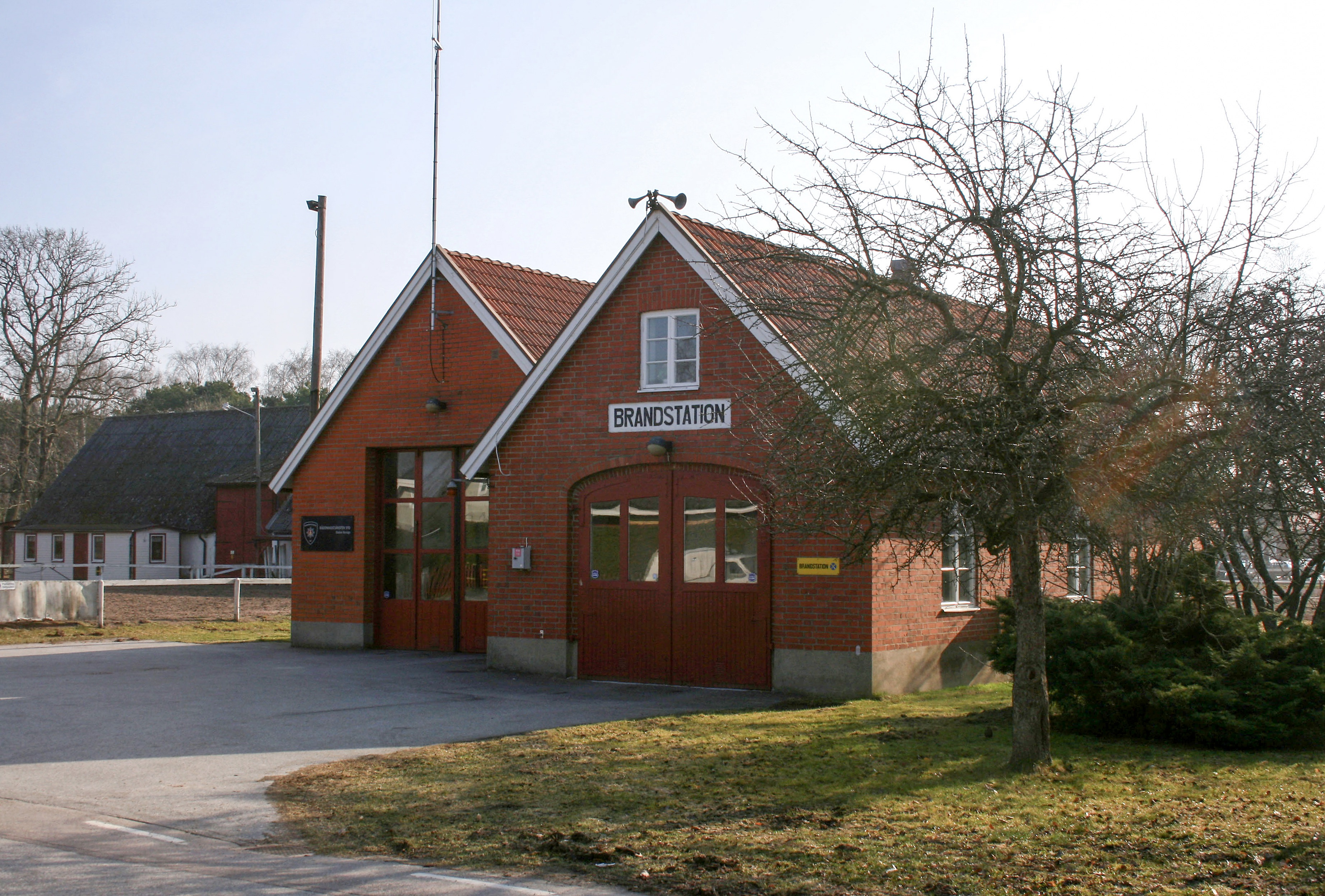 Revinge fire station